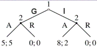 Gioco dell'ultimatum